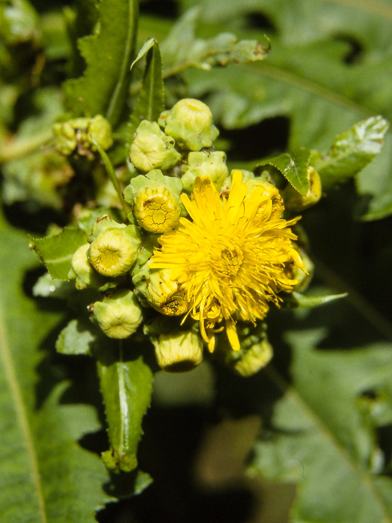 Sonchus congestus, roadside, Sierra Anaga, Tenerife; converted from a slide photograph taken on 8 Jan 1998